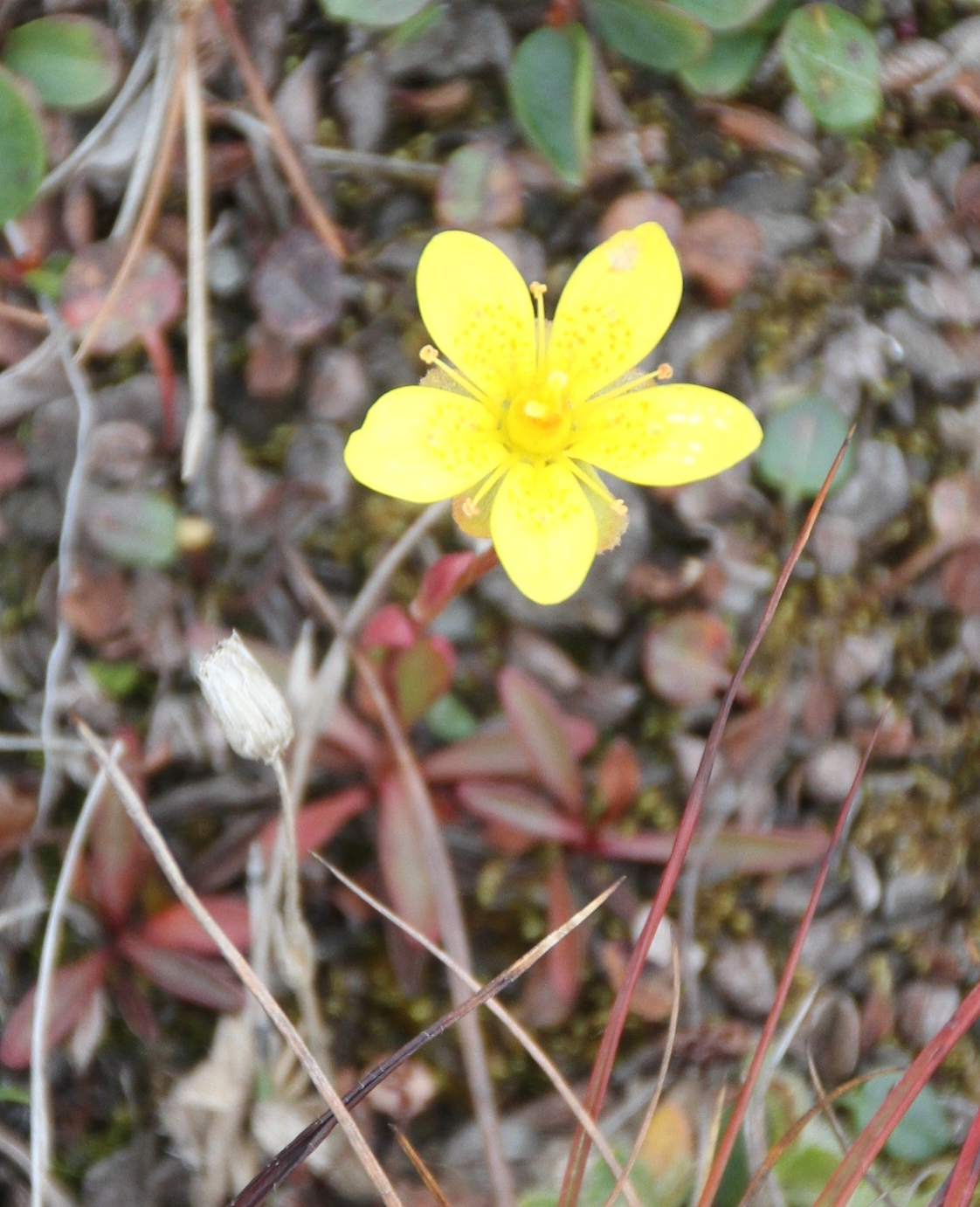 Saxifrage (Saxifraga hirculus subsp. compacta) flowers observed at island of Spitsbergen, Svalbard (Norway). August,, 2012.